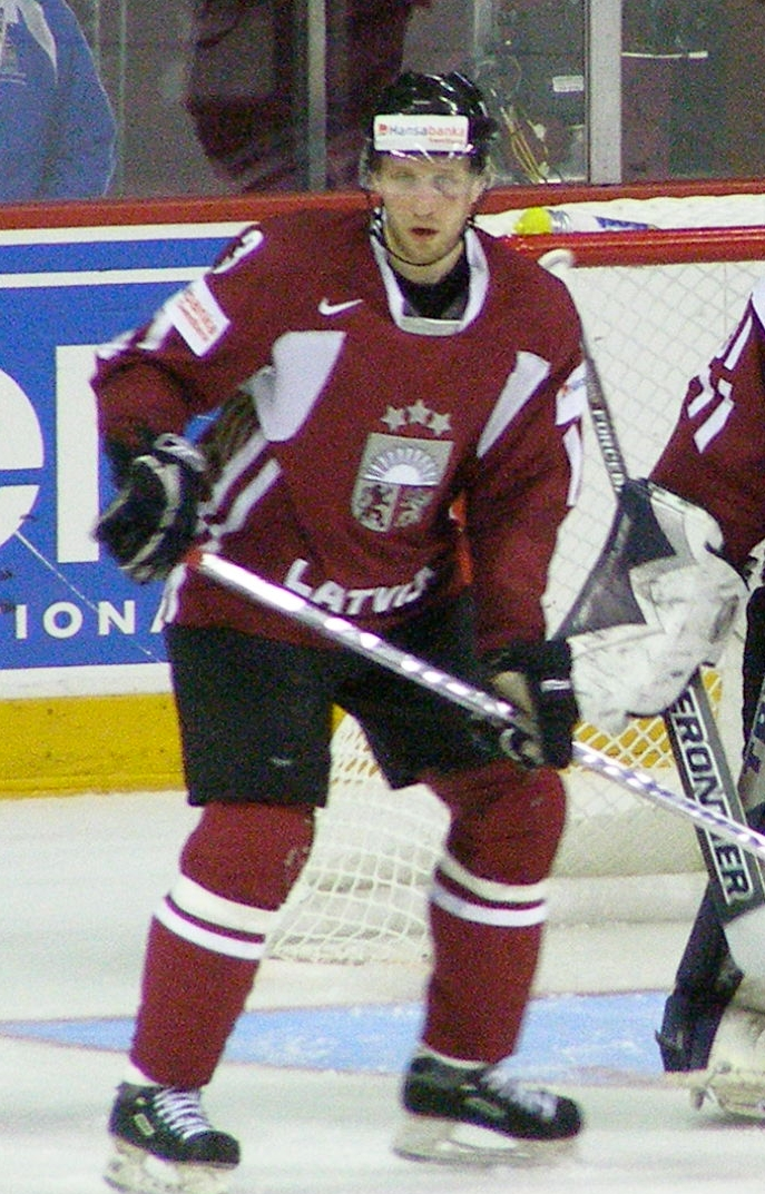 Arvīds Reķis/Latvia VS USA (IIHF World Hockey Championship in Halifax NS, May 2 2008)/